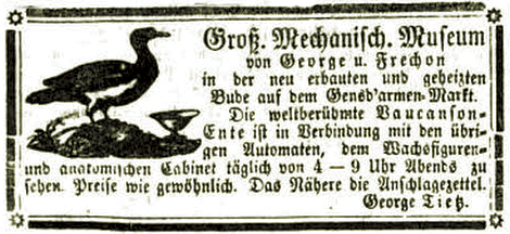 Advertisment for Vaucanson's mechanical duck.